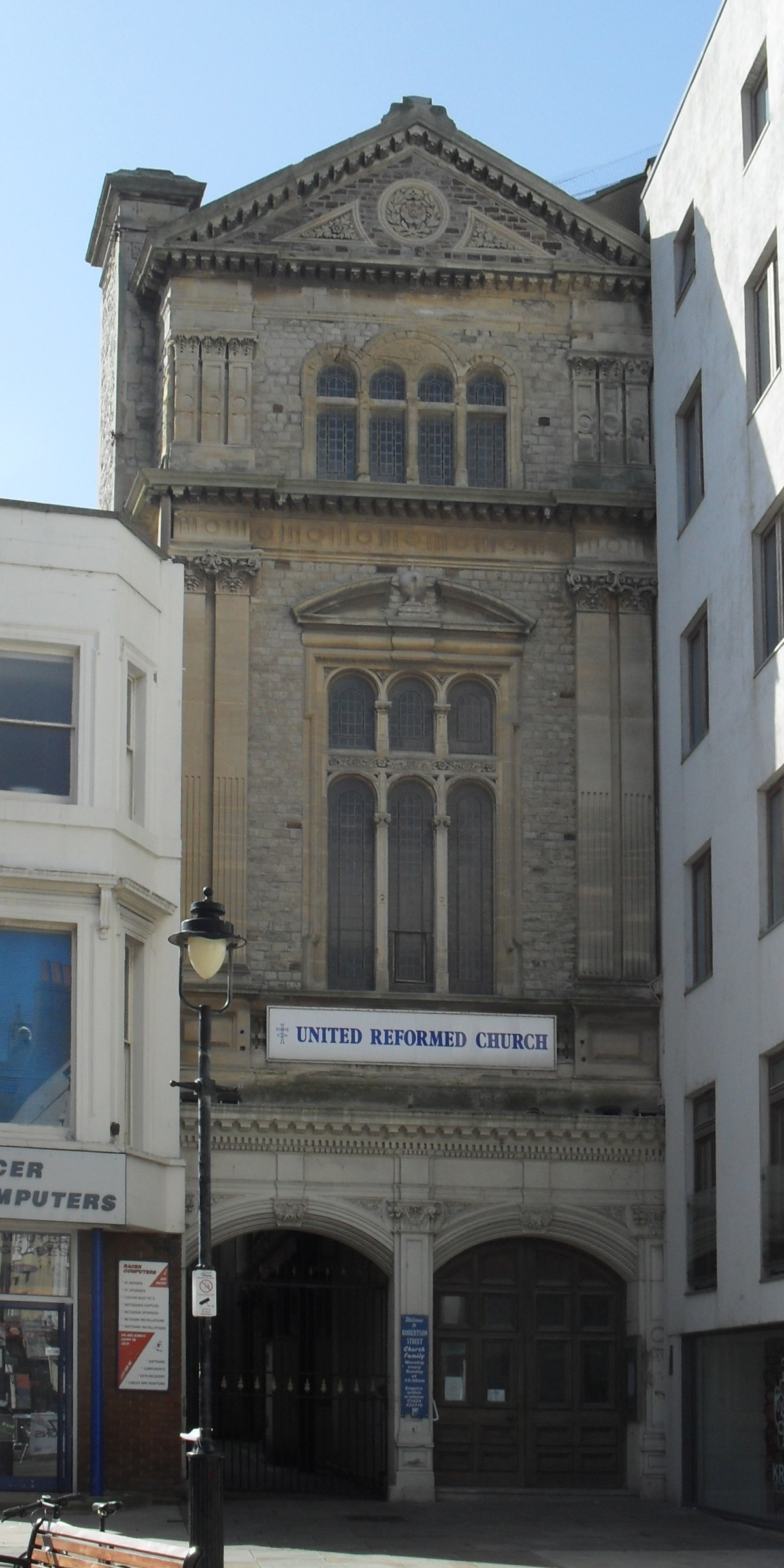 Robertson Street United Reformed Church, Robertson Street, Hastings, East Sussex, England. Designed in 1884 by Henry Ward as a Congregational church to replace an 1856 church on the same site; constructed by John Howell & Son of Hastings; it was completed in the 1990s. It was the last work in which John Howell Senior (ca.1824-1893) cooperated with his son. This view shows the main (Robertson Street) elevation. The church closed on 30 December 2012 and is now in use by a Pentecostal group.